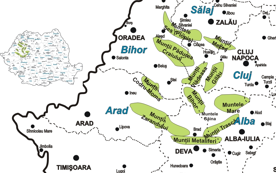 Apusseni Mountains, in the Romanian Western Carpathians, west Romania.